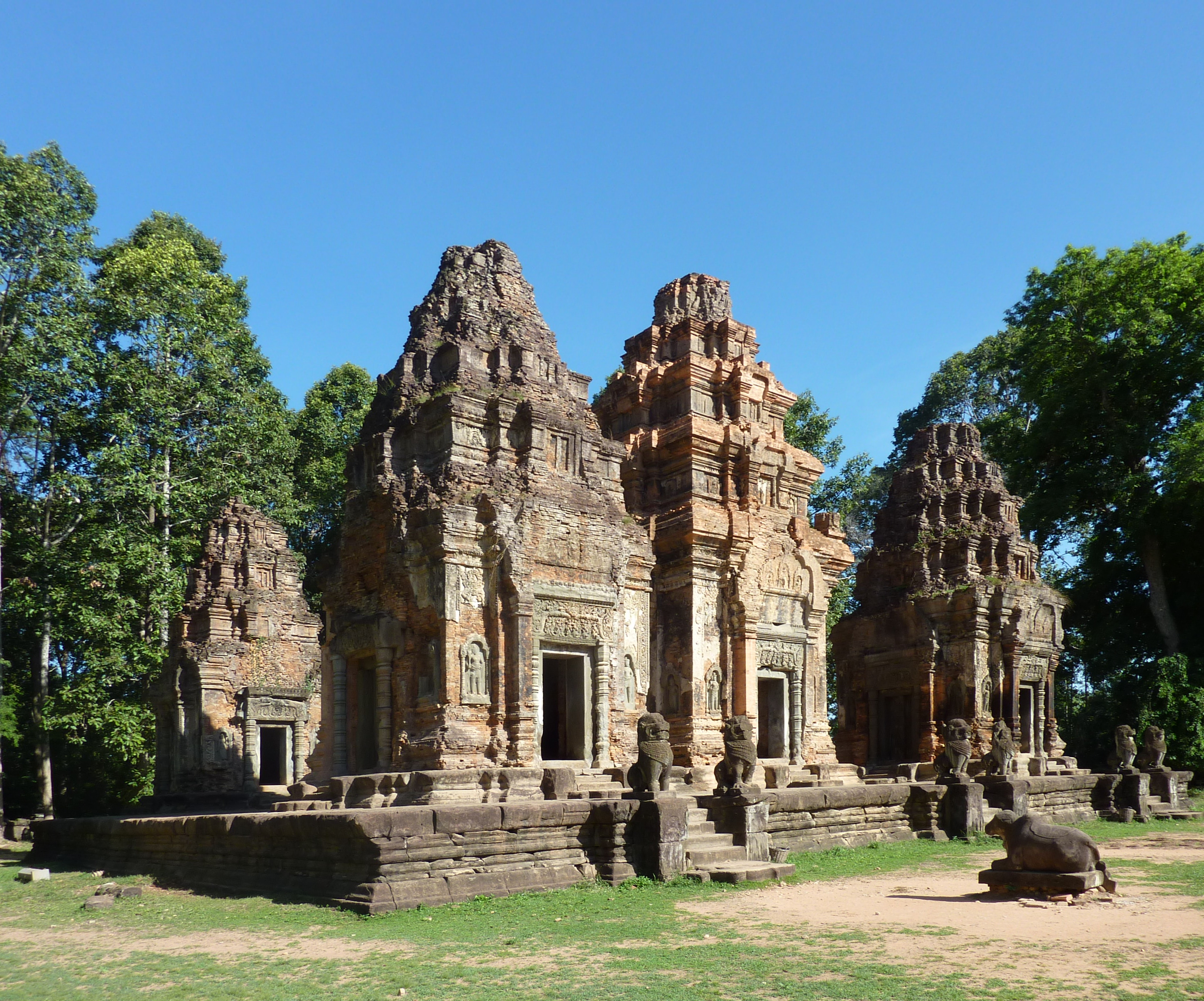 003 Preah Ko Photograph from the Roulos Group near Angkor in Cambodia taken by Anandajoti.